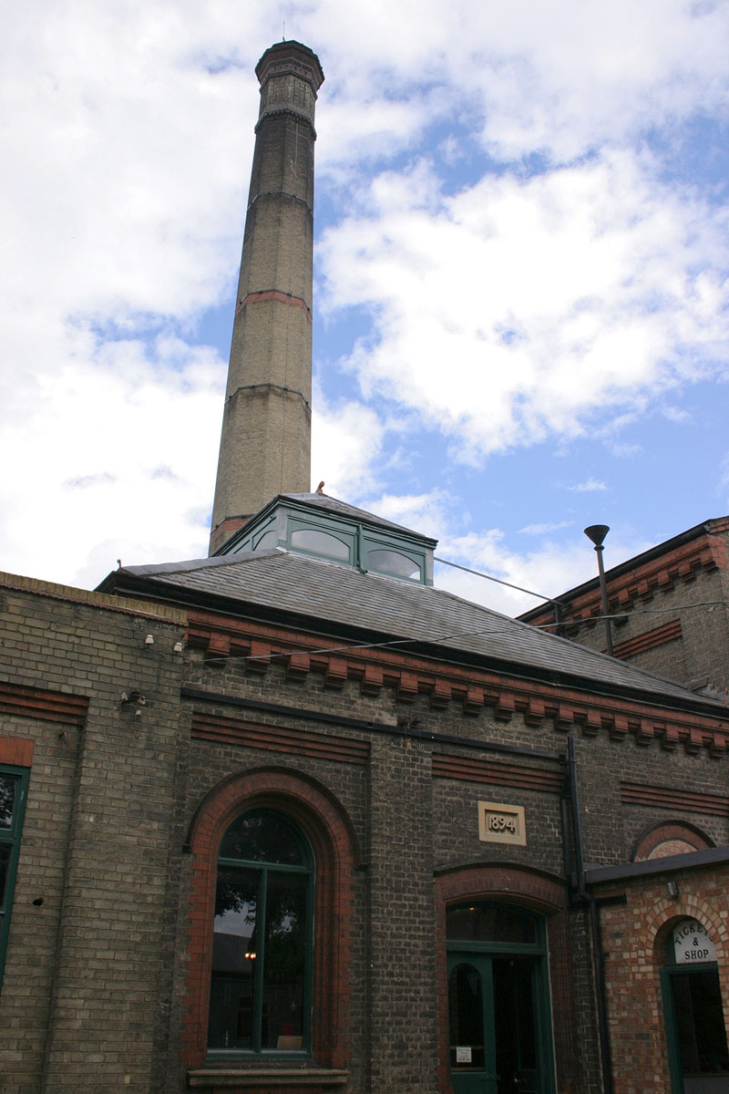 The main building entrance and chimney of the Cambridge Museum of Technology, Cambridgeshire, United Kingdom.